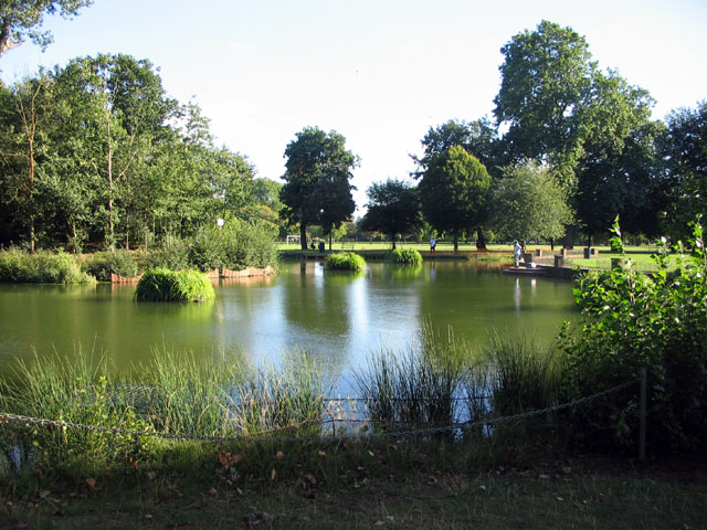 The 'Bathing Pond', Victoria Park, Tower Hamlets, London. 28 August 2005. Photographer: Fin Fahey